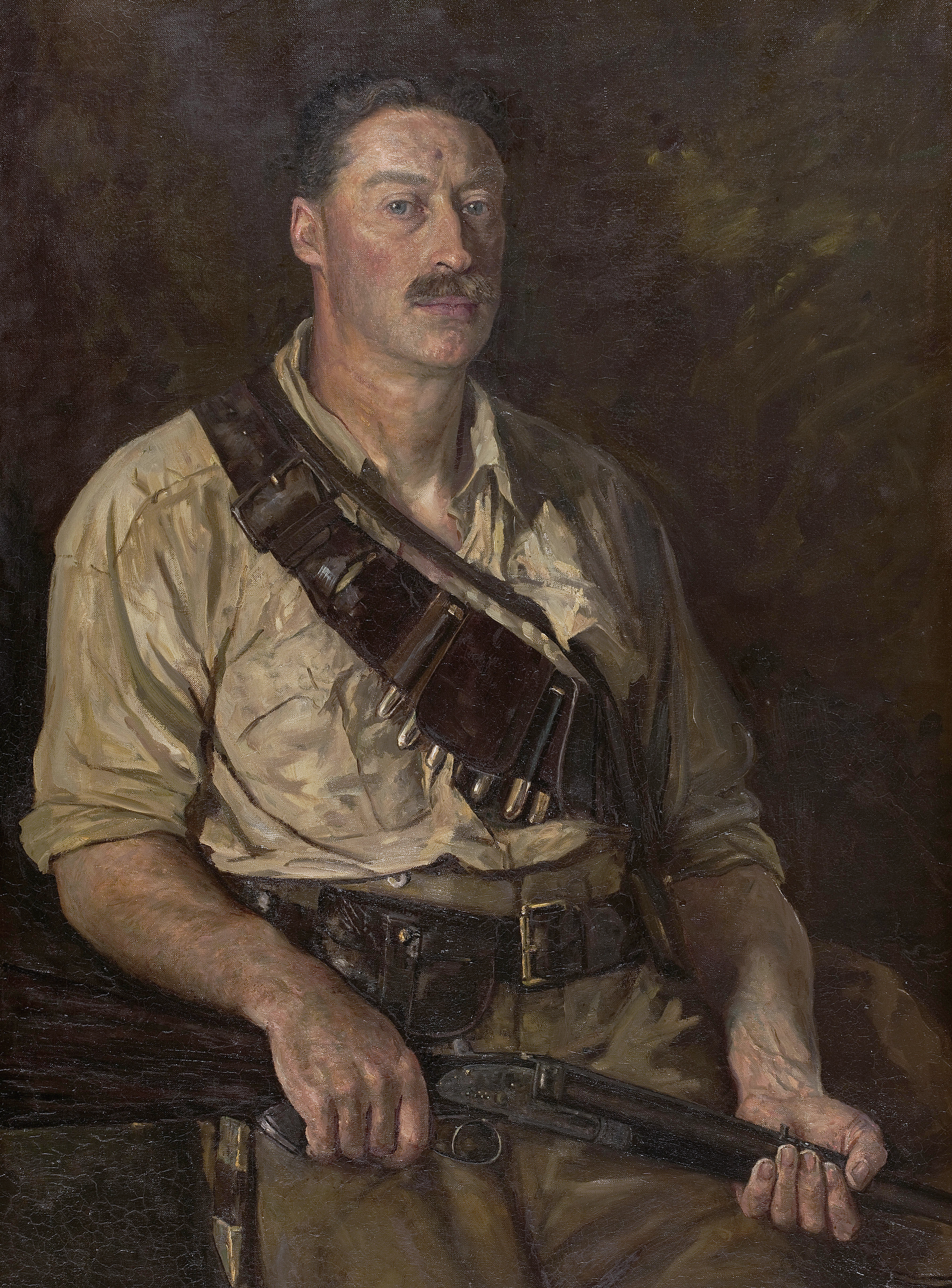 Richard John Cuninghame (1871-1925) oil on canvas 101 x 76 cm signed b.r.: H J Ford / 1920